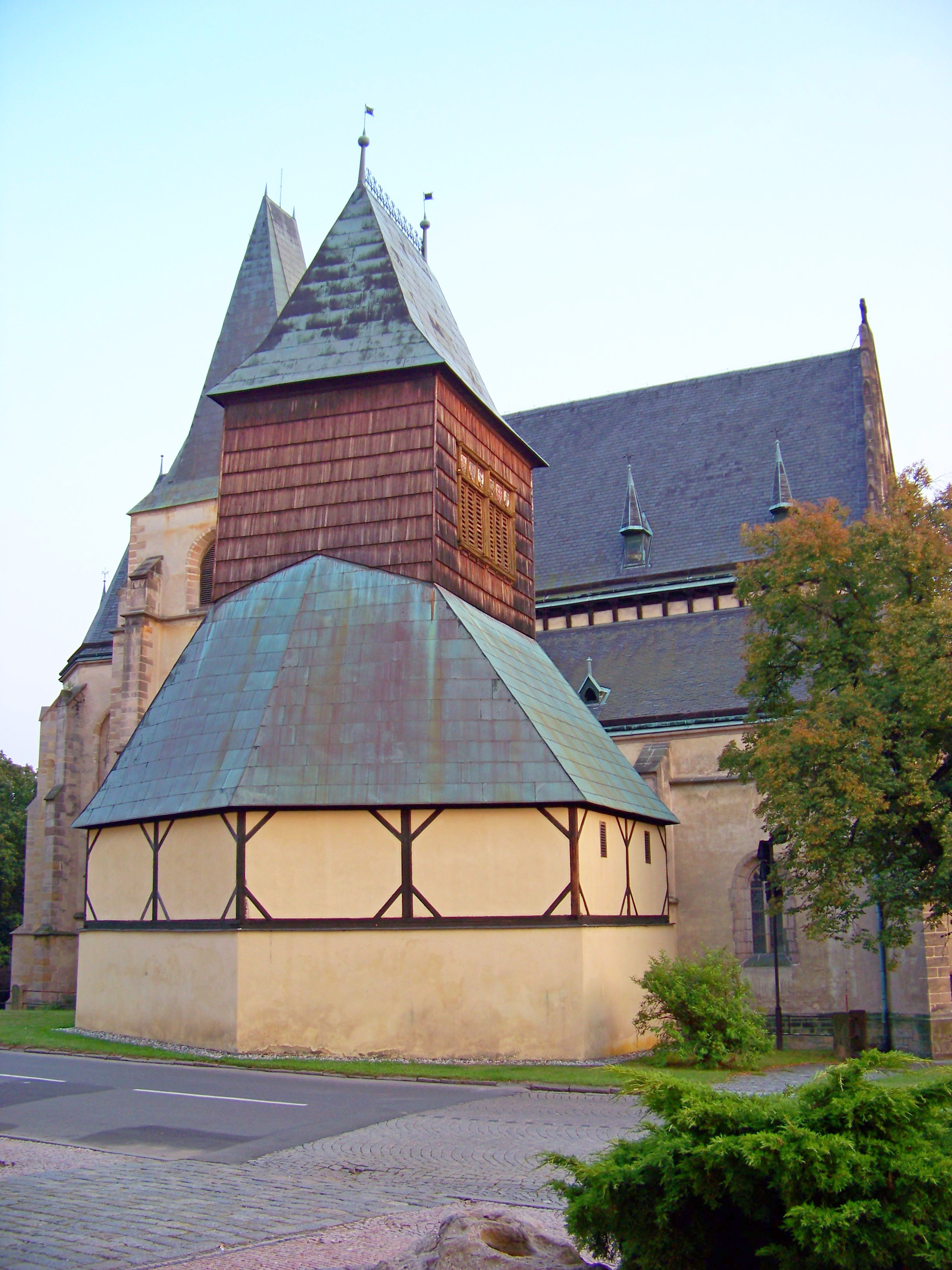 Rakovník I, Rakovník District, Central Bohemian Region, the Czech Republic. Bell tower and church of Saint Bartholomew.